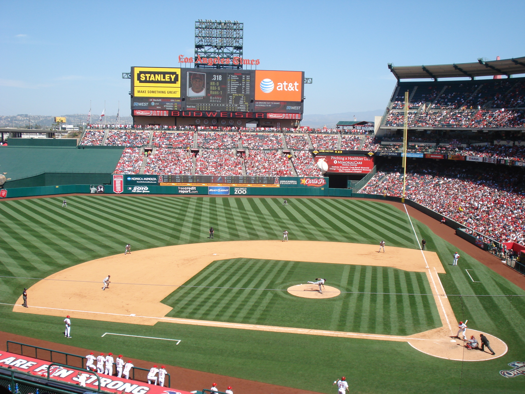 Anaheim Angels vs Boston Red Sox at Angels Stadium.